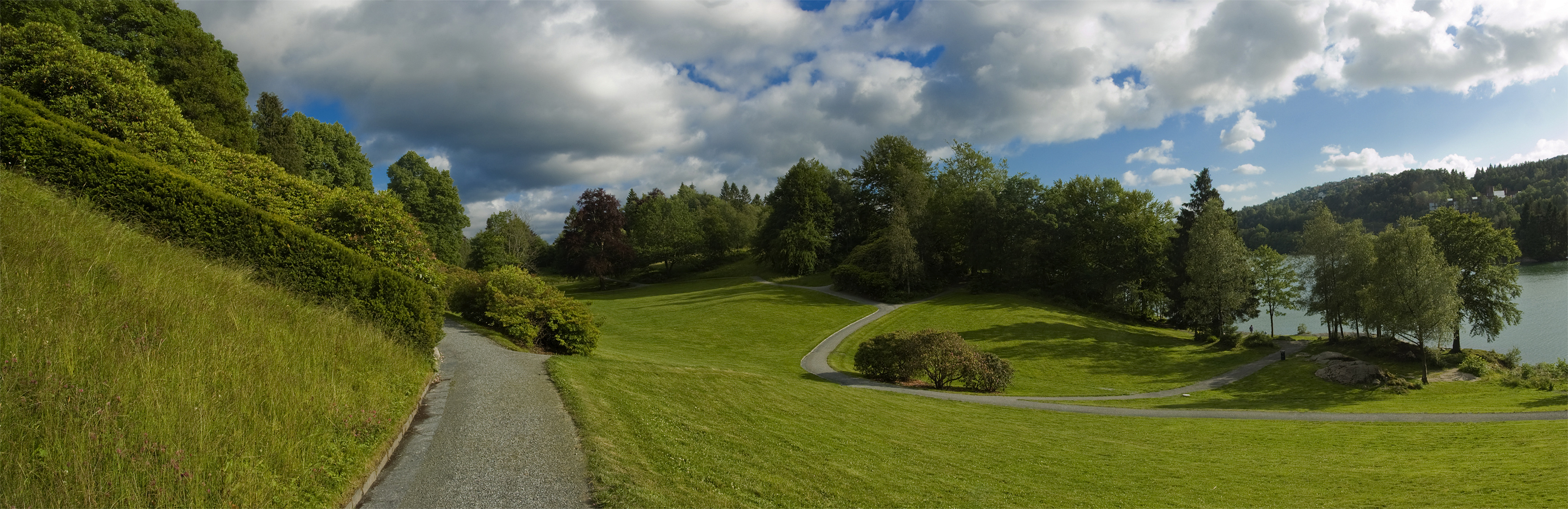 Gardens of Gamlehaugen, Bergen, Norway.